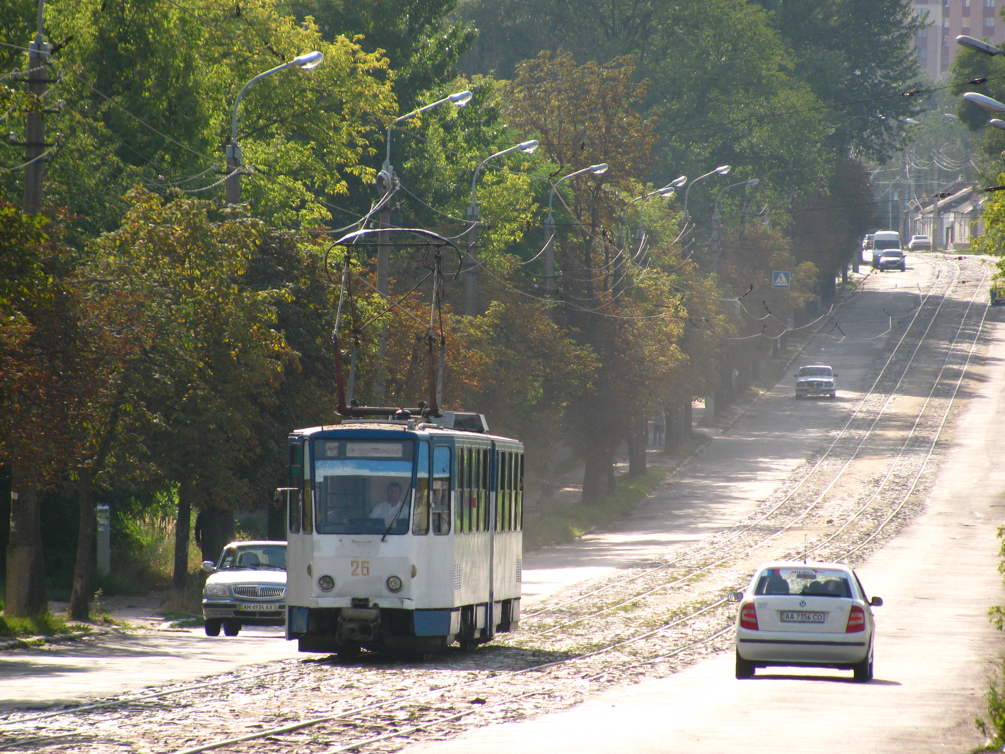 Tatra KT4SU in Zhitomir, Ukraine